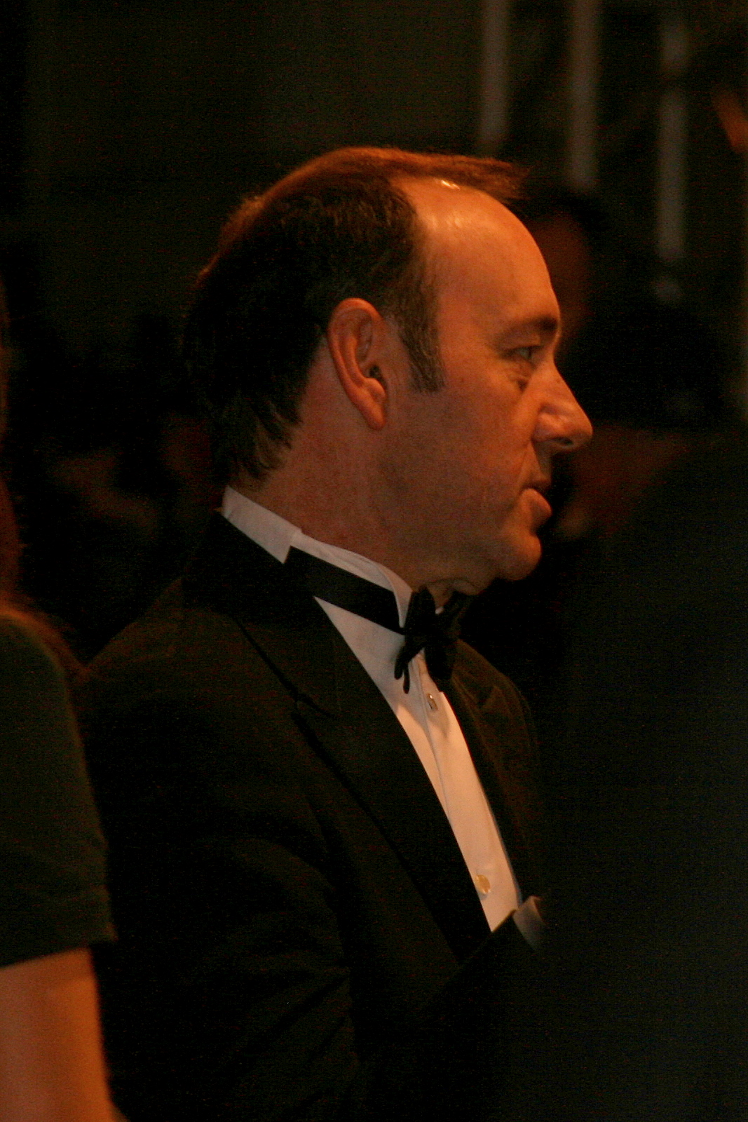 Kevin Spacey at the ceremony of the British Academy of Film and Television Arts (2008)